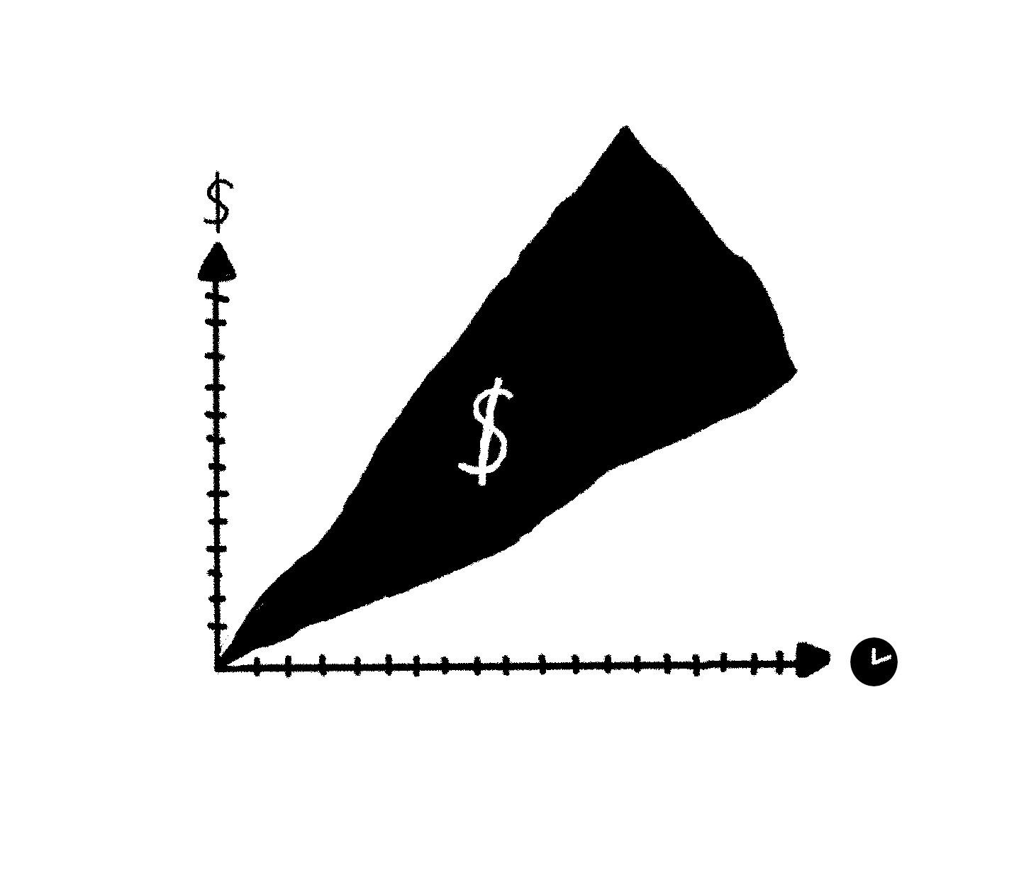 Illustration of a "tiger economy" - an economy that undergoes a rapid growth